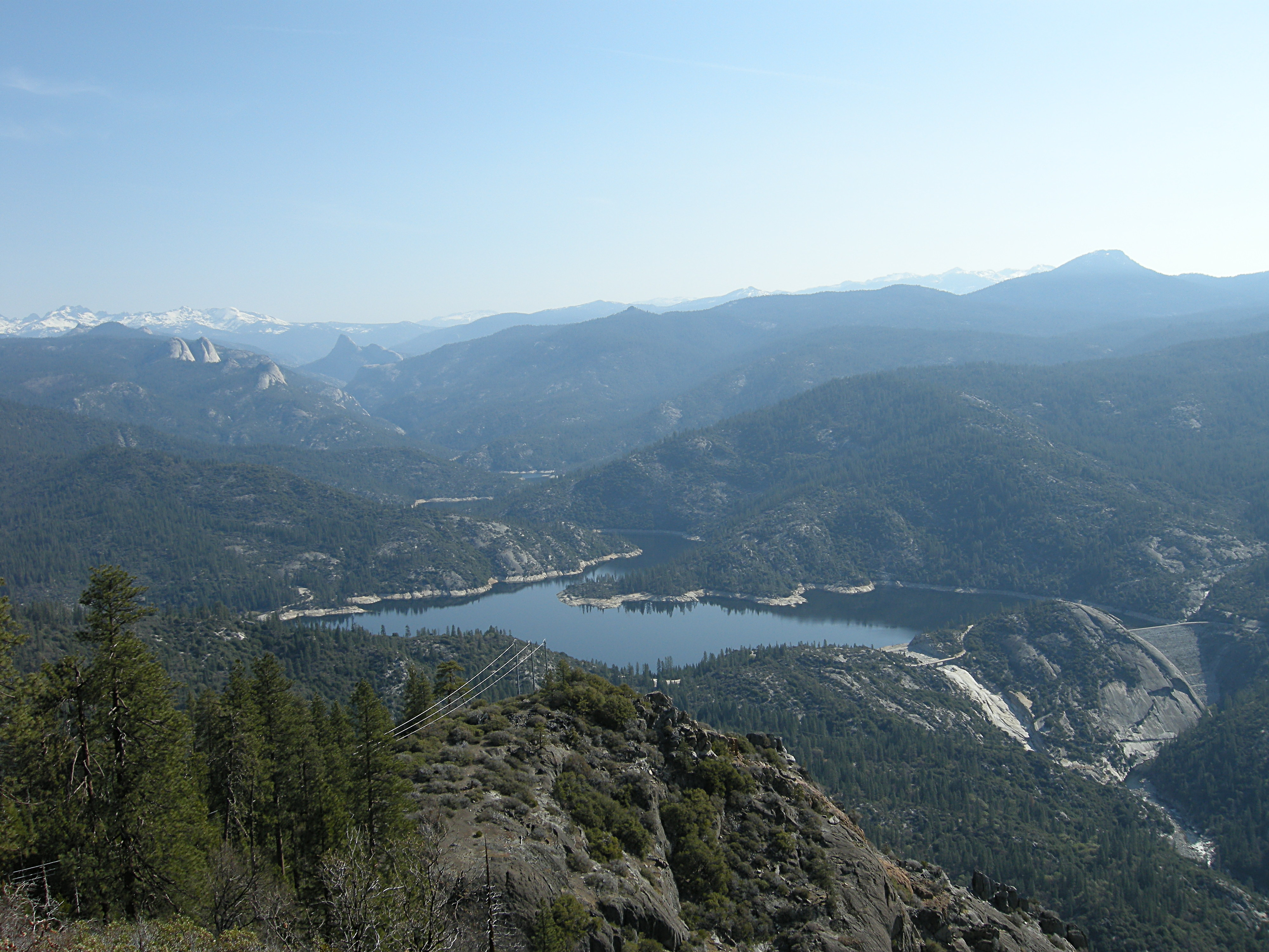 Mammoth Pool Reservoir taken from Mile High Vista, Sierra National Forest. Mammoth Pool Dam is on the San Joaquin River.